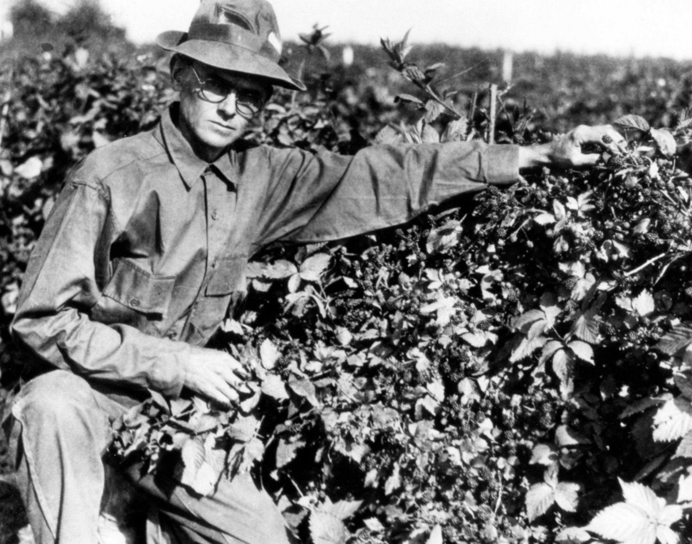 Walter Knott tending berries in 1948.